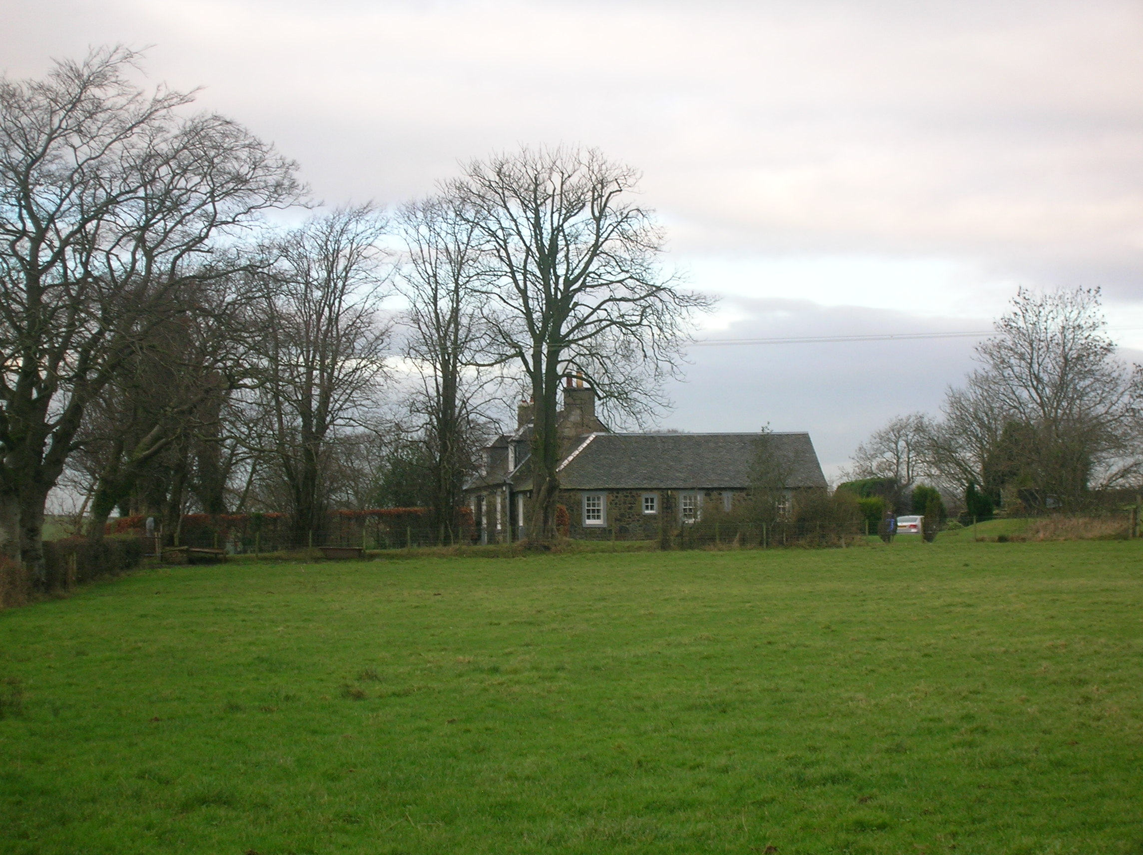 Cankerton farm from near Wattshode, Chapeltoun in East Ayrshire. January 2007. Originally Cankerton Hole or Holl - Cankerton Hollow.